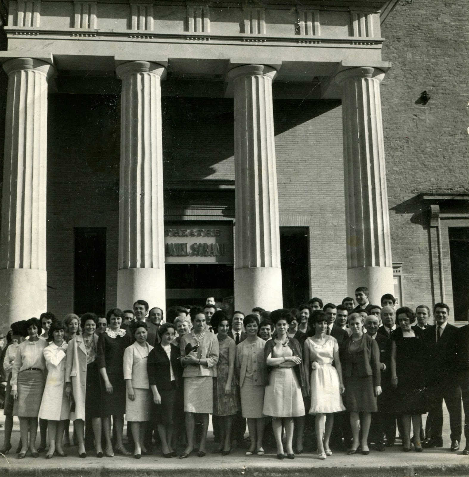 inauguration du Théâtre Sorano